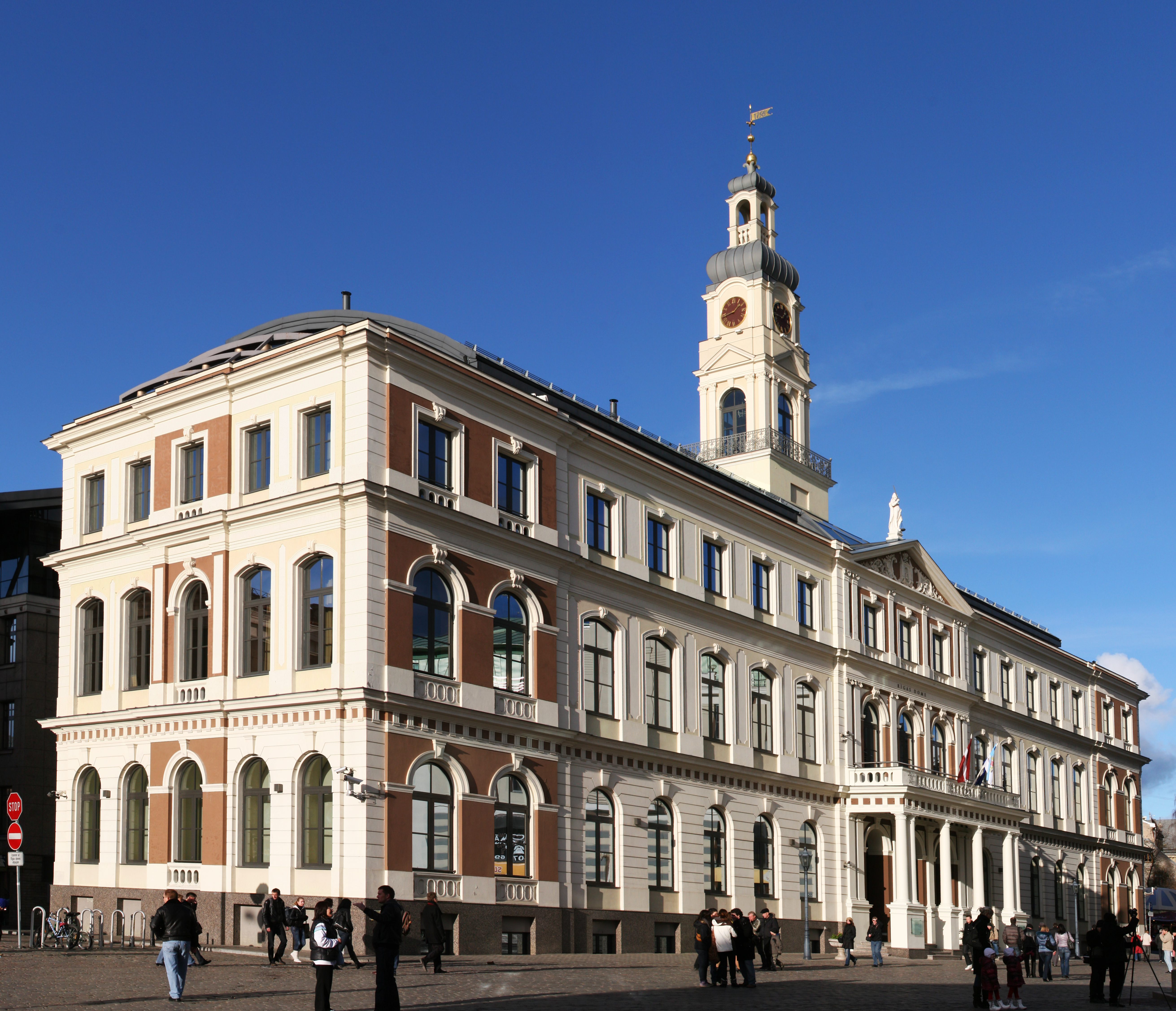 Riga Town Hall